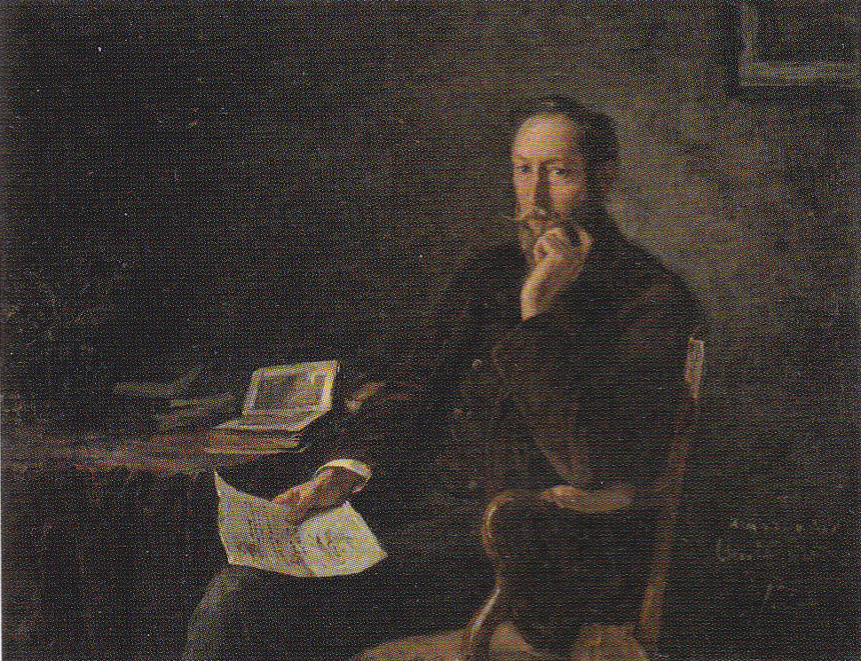 Portrait of Edward B. Koster (1861-1937) by Jacques Zon. Location: Literatuurmuseum, Den Haag